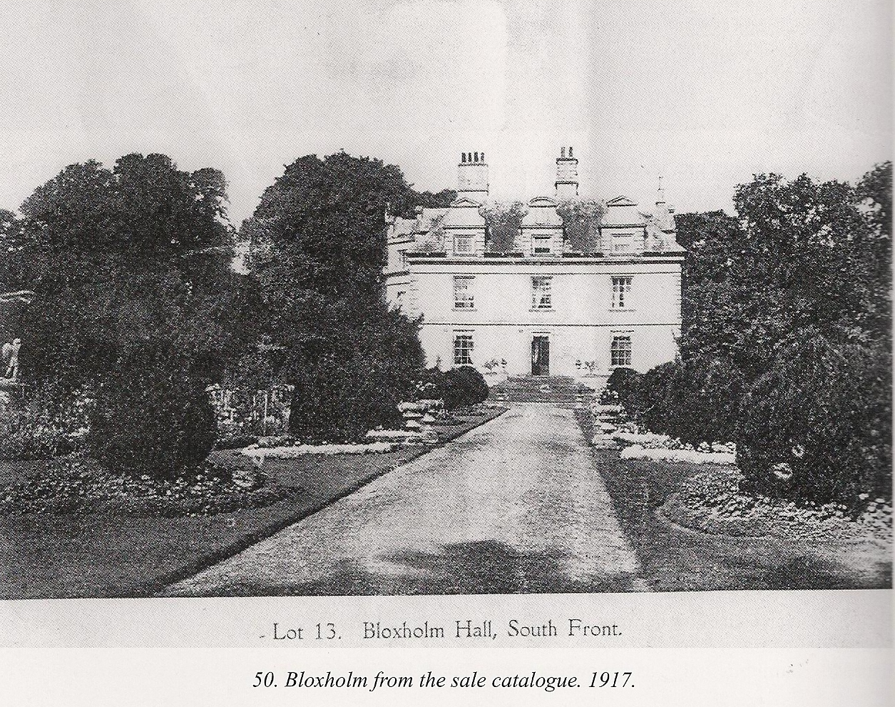 Image of Bloxholm Hall in Lincolnshire taken from a sales brochure dated 15 October 1917